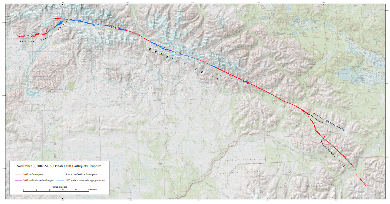 Map showing the extent of surface rupture during the 2002 Denali earthquake from USGS Data series 422